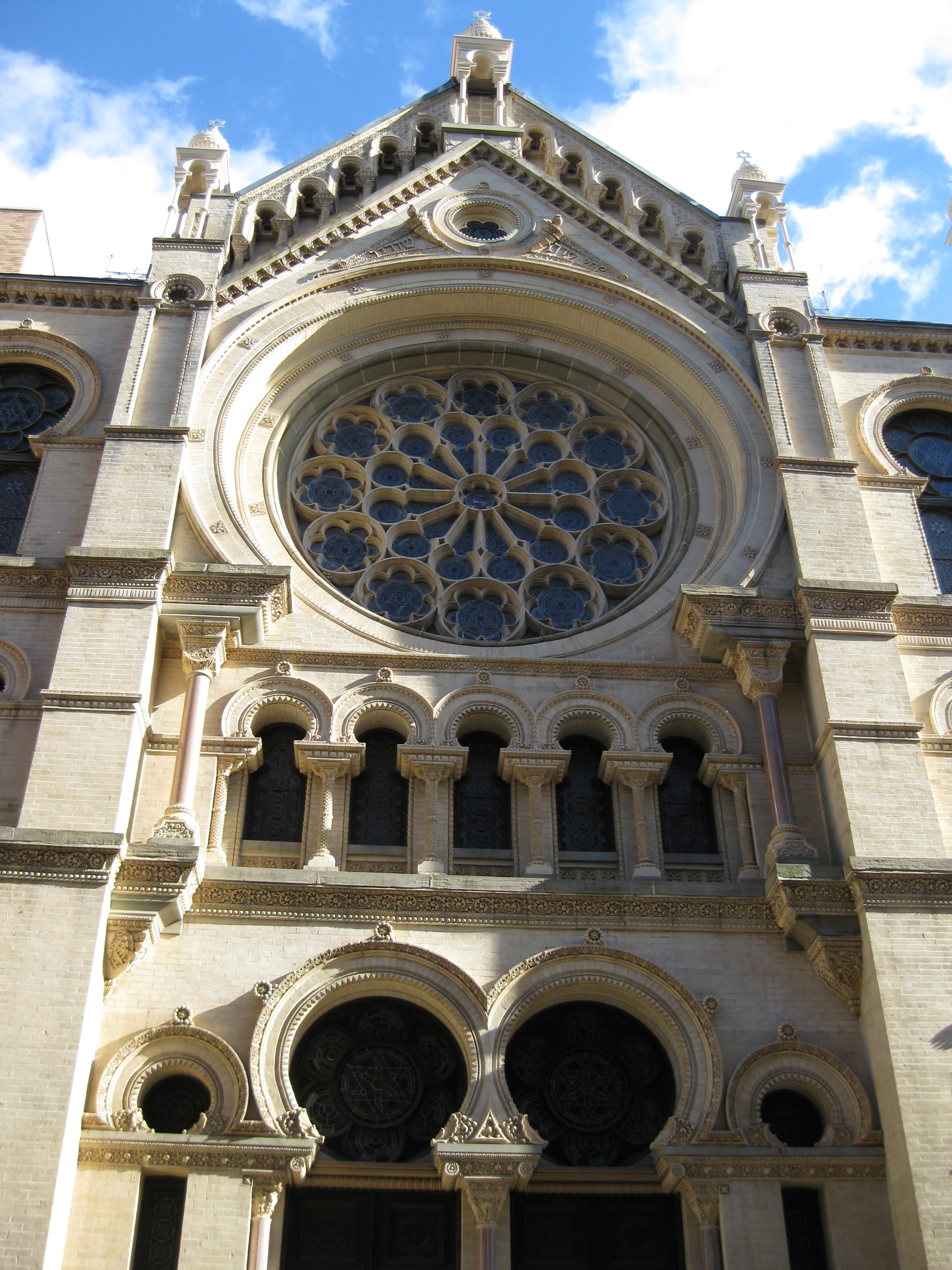 Eldridge Street Synagogue Front